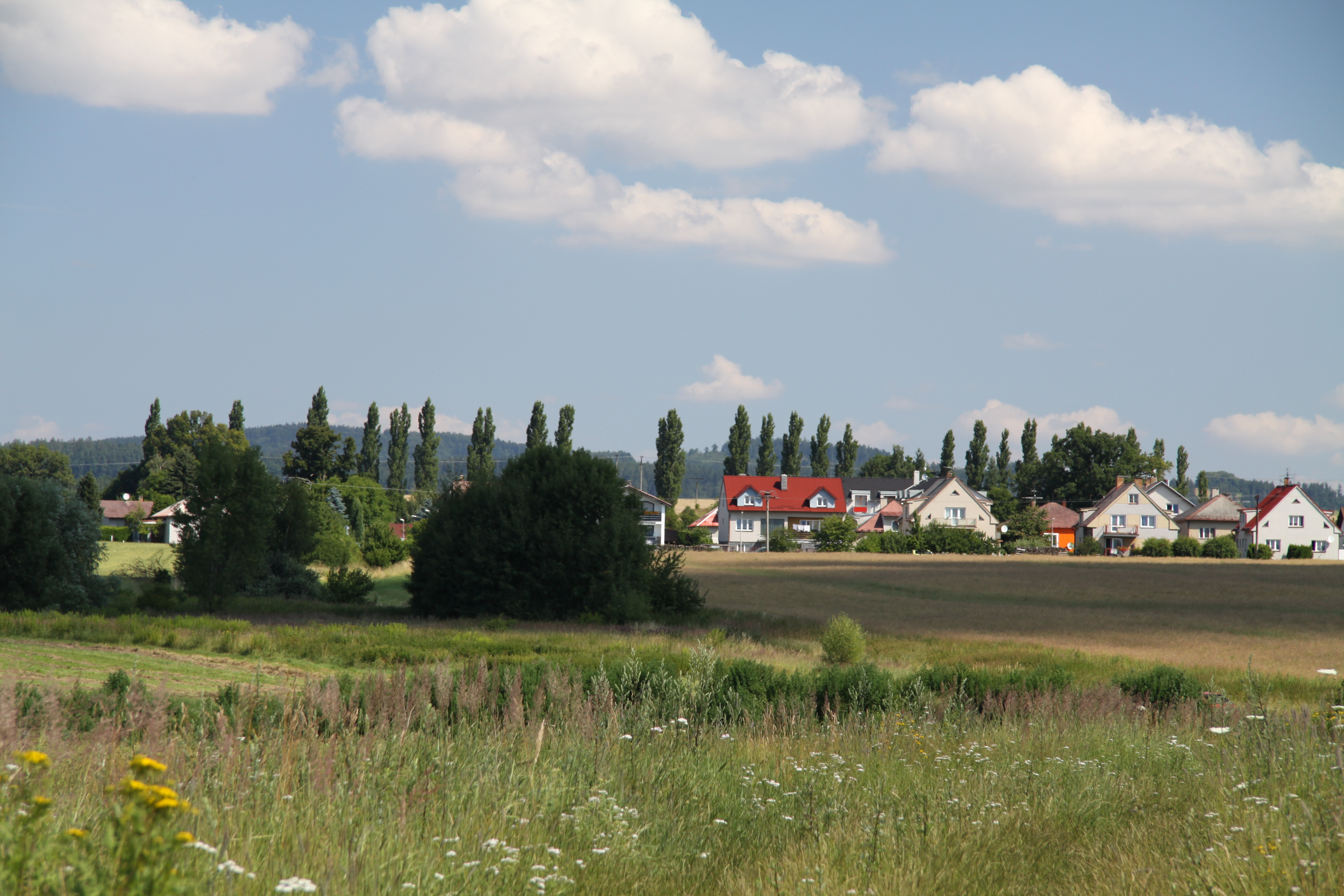 Dražice village in Tábor district, Czech Republic. View from countryroad southern from village. - Google Maps - Google Earth